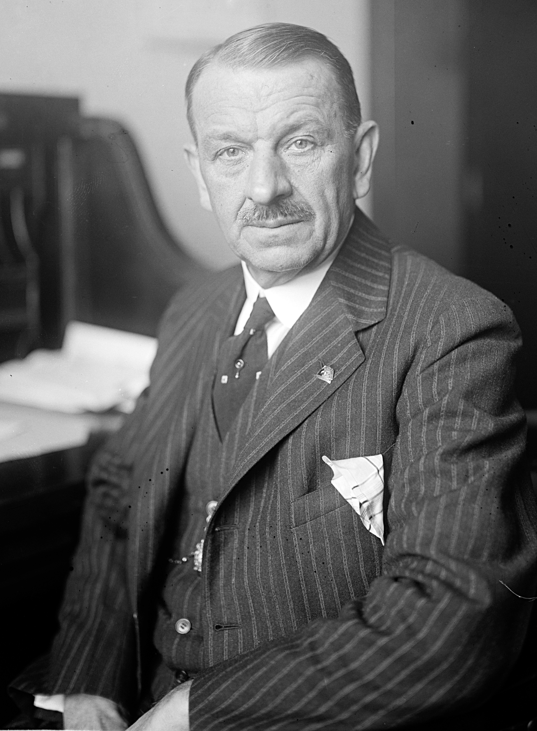 William Martin Croll, US Representative from Pennsylvania